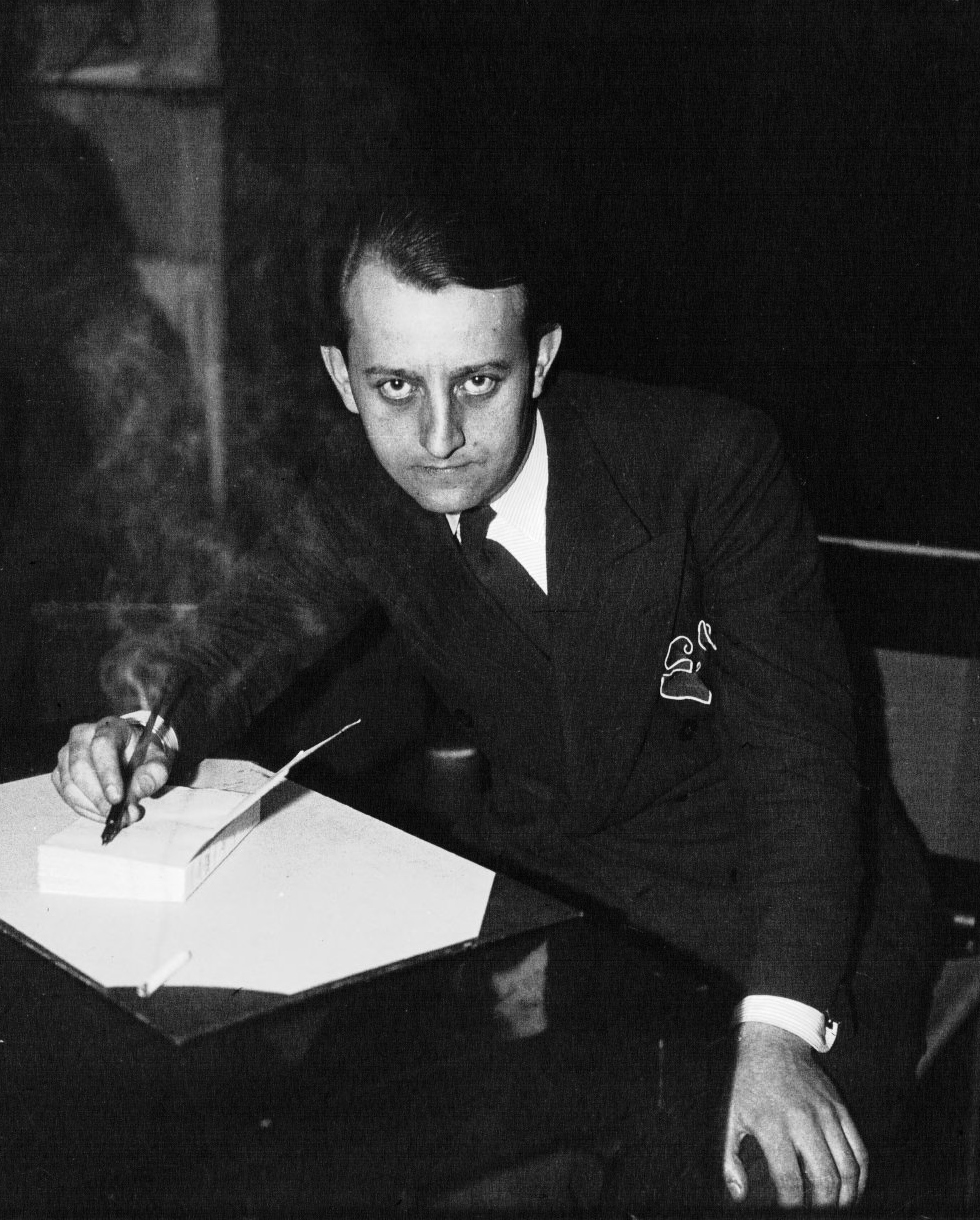 French writer André Malraux (1901-1976).